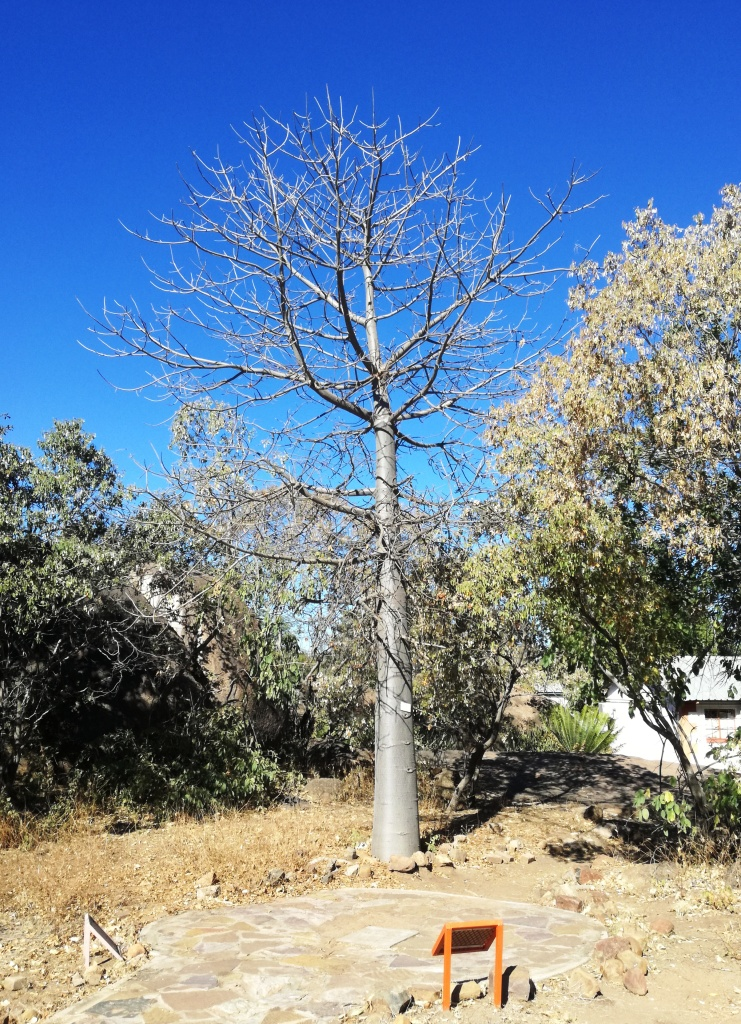 Baobab Adansonia digitata - Botswana Botanical gardens